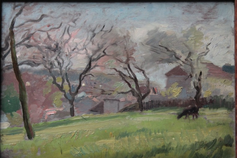 Study for a Landscape